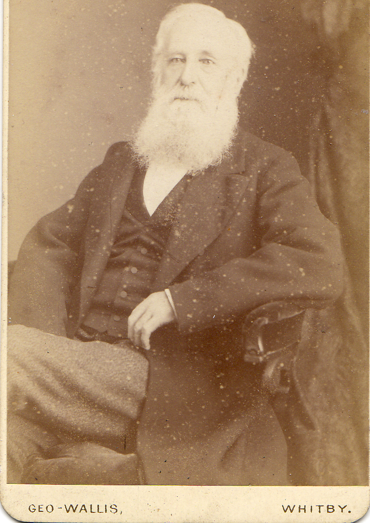 Thomas Thistle (born 1813 Ugglebarnby Yorkshire, died 1892). Father of Rev Thomas Thistle (1853 -1936) and Hannah Elizabeth Vowles nee Thistle (1842-1903)